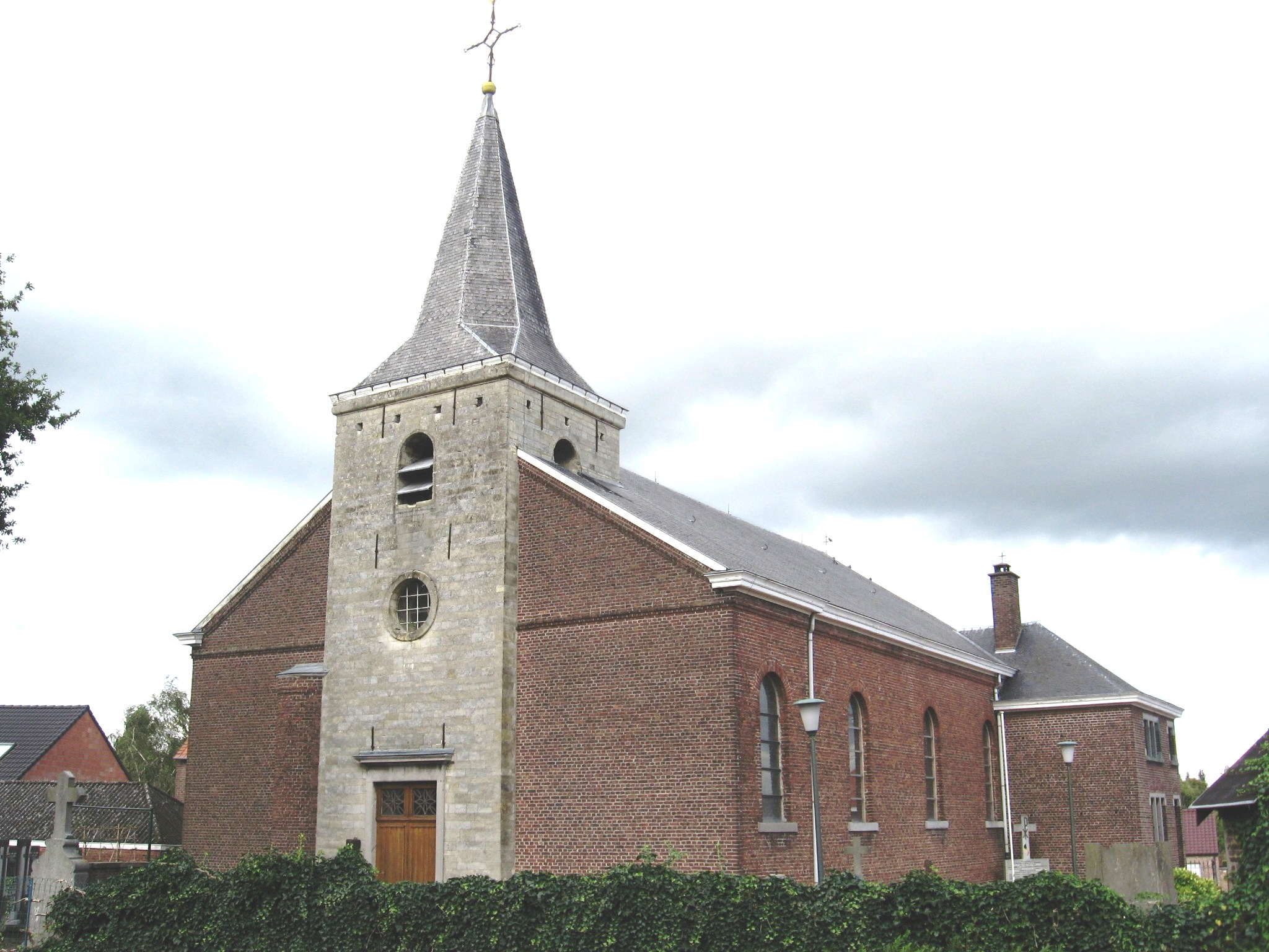 Church of Saint Lambert in Grote-Spouwen, Bilzen, Limburg, Belgium